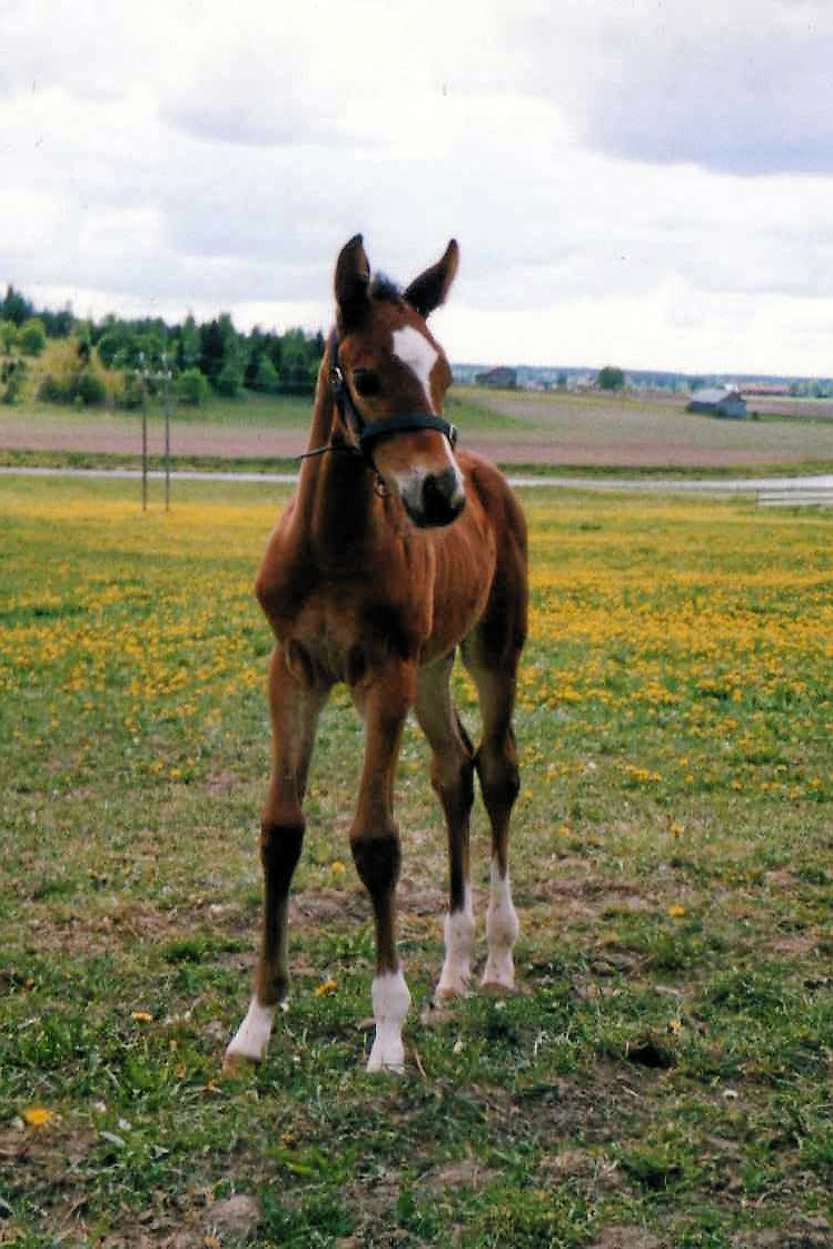 Finnish Warmblood filly